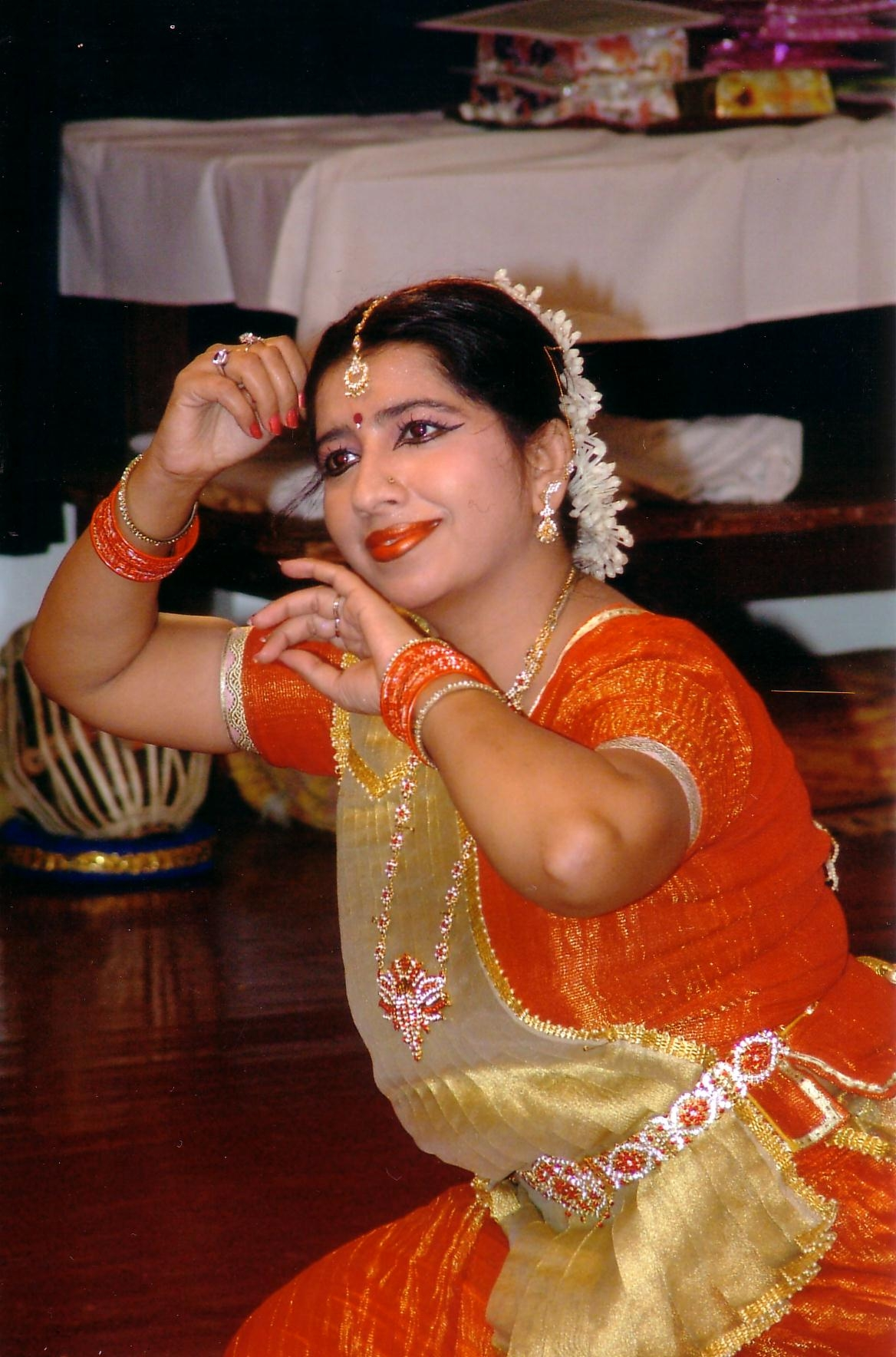 Central Civil Services Culture and Sports Board